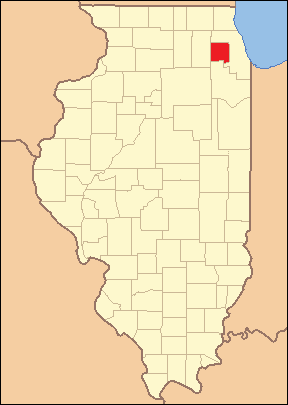 Locator Map of DuPage County, Illinois, 1839. Based on: Illinois Secretary of State. Origin and Evolution of Illinois Counties. March 2010. p. 57.